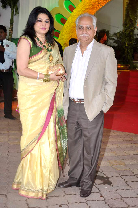 Kiran Juneja, Ramesh Sippy at Esha Deol's wedding at ISCKON temple